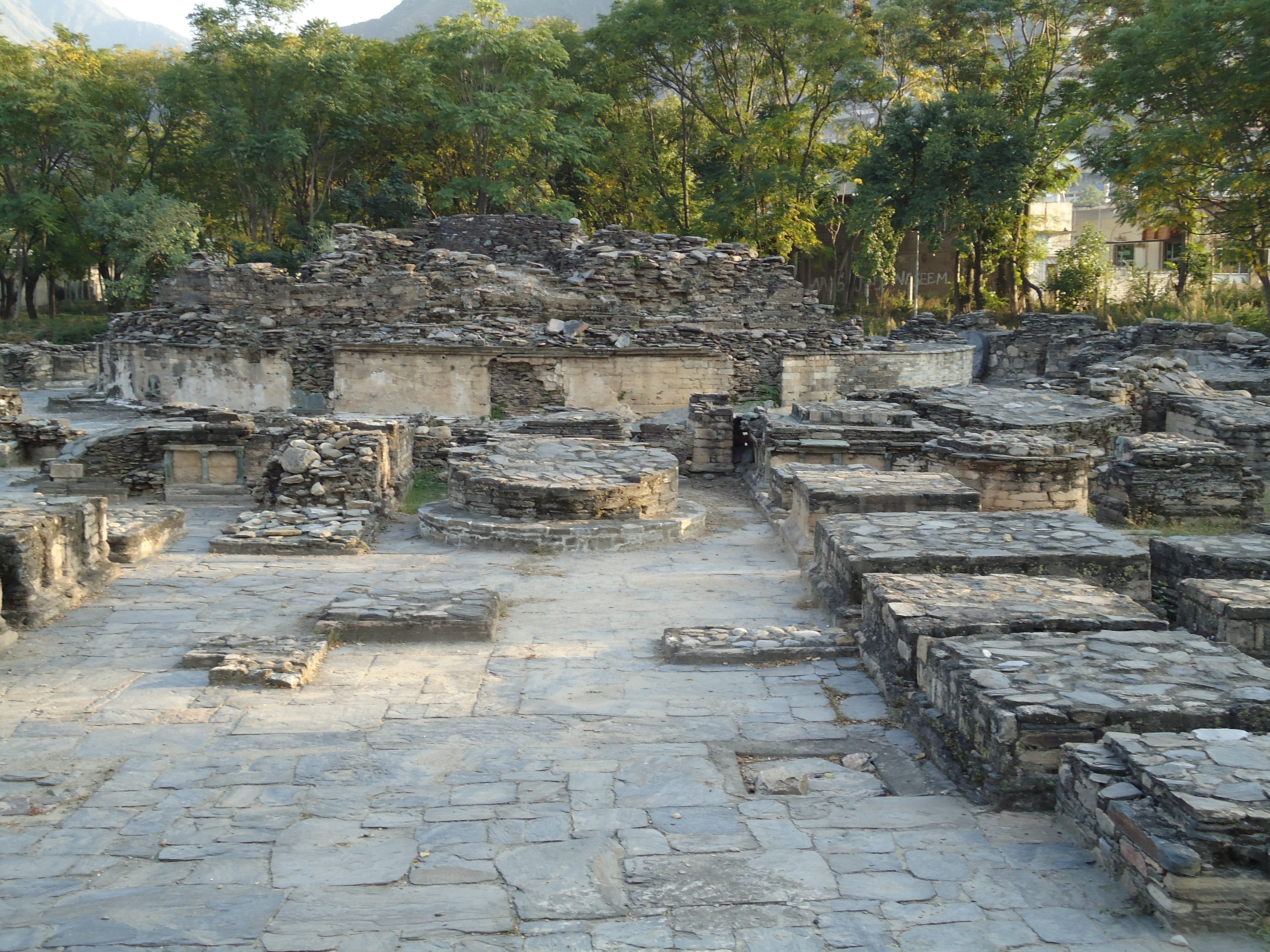 Butkara-I This is a photo of a monument in Pakistan identified as the KPK-65